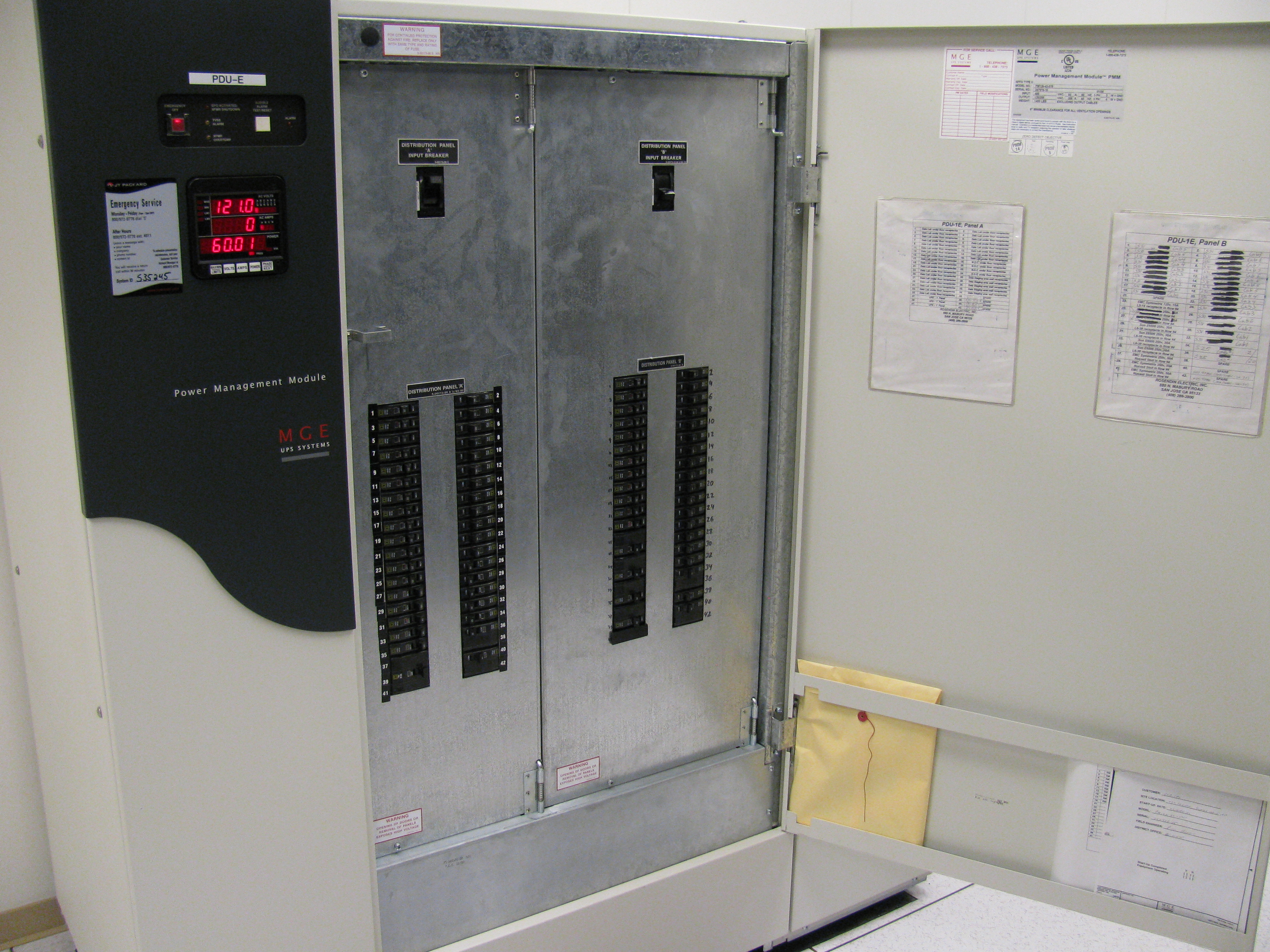 UPS PDU Open